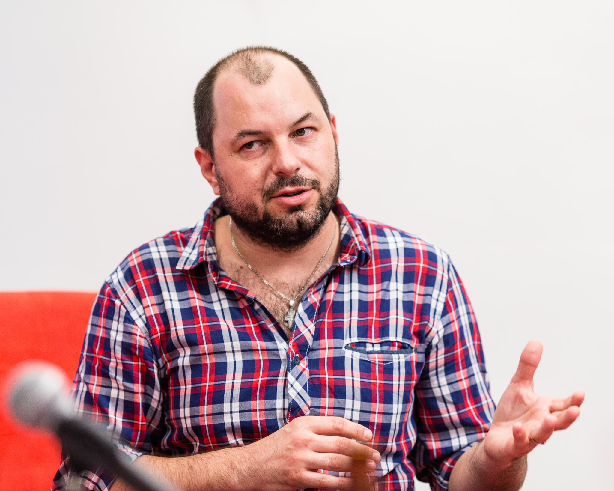 Dmytro Lasutkin on Authors’ Reading Month 2018, Wrocław, Poland